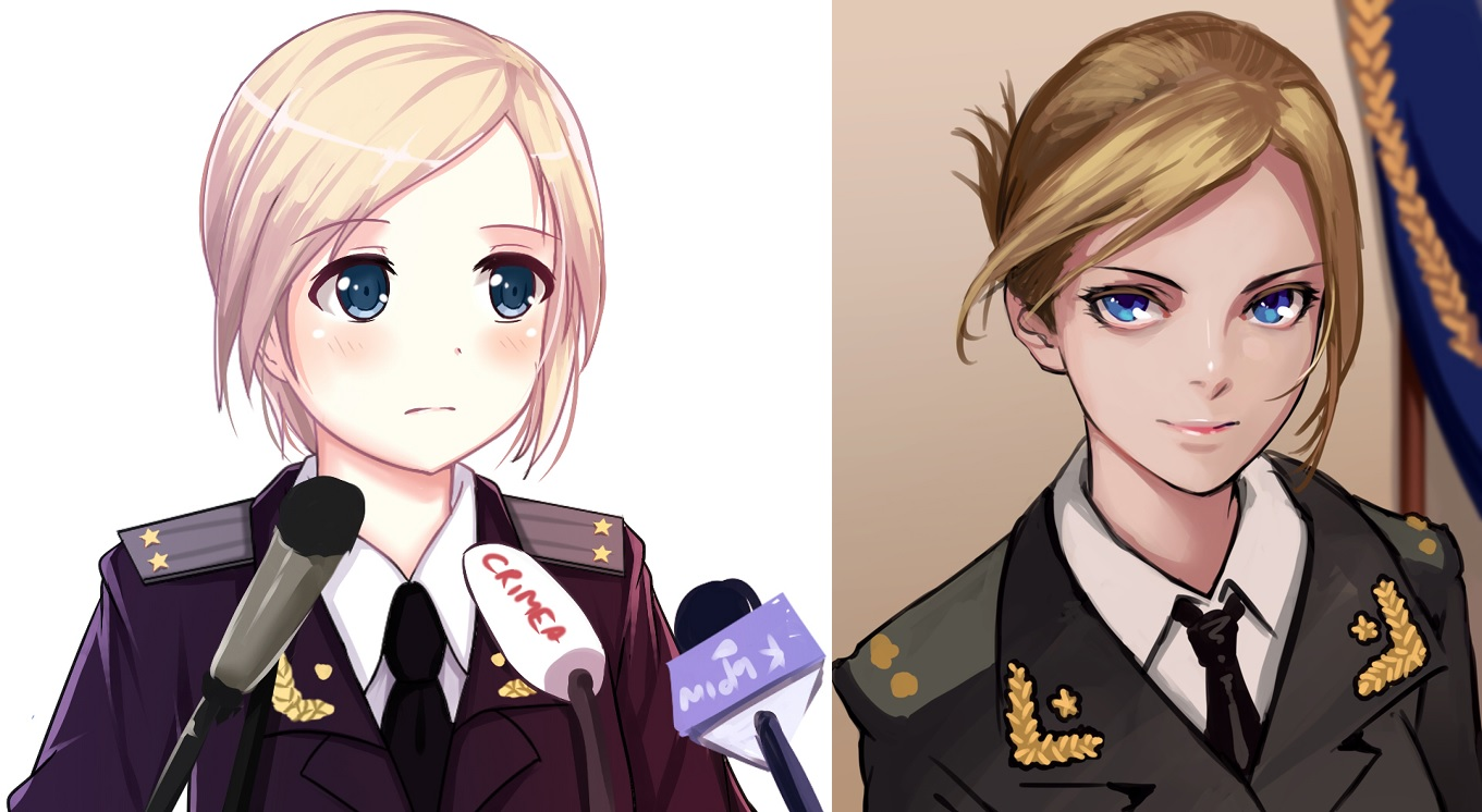 A WP:MONTAGE of two images joined together, intended for use within articles on the English Wikipedia. The image consists of: This illustration by Itachi Kanade, licensed under CC-BY-SA 3.0 (see file description page) This illustration by As109, licensed under CC-BY-SA 3.0 (see file description page) The purpose of this fork is to make changes to the English Wikipedia without making alterations to other language Wikipedia projects.